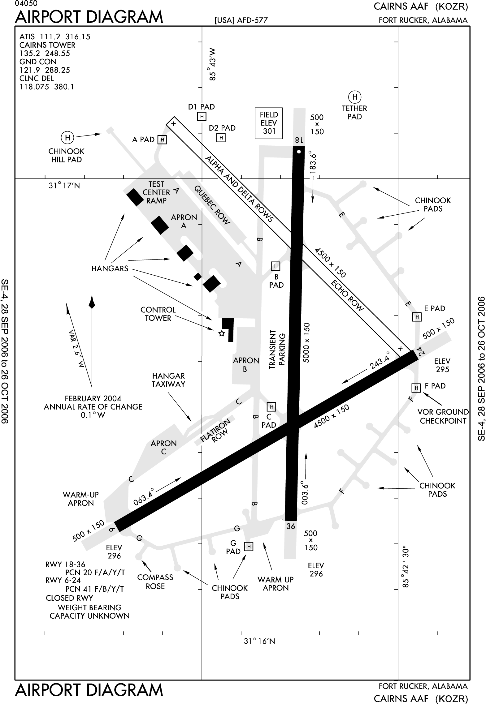 Diagrm of Cairns Army Airfield